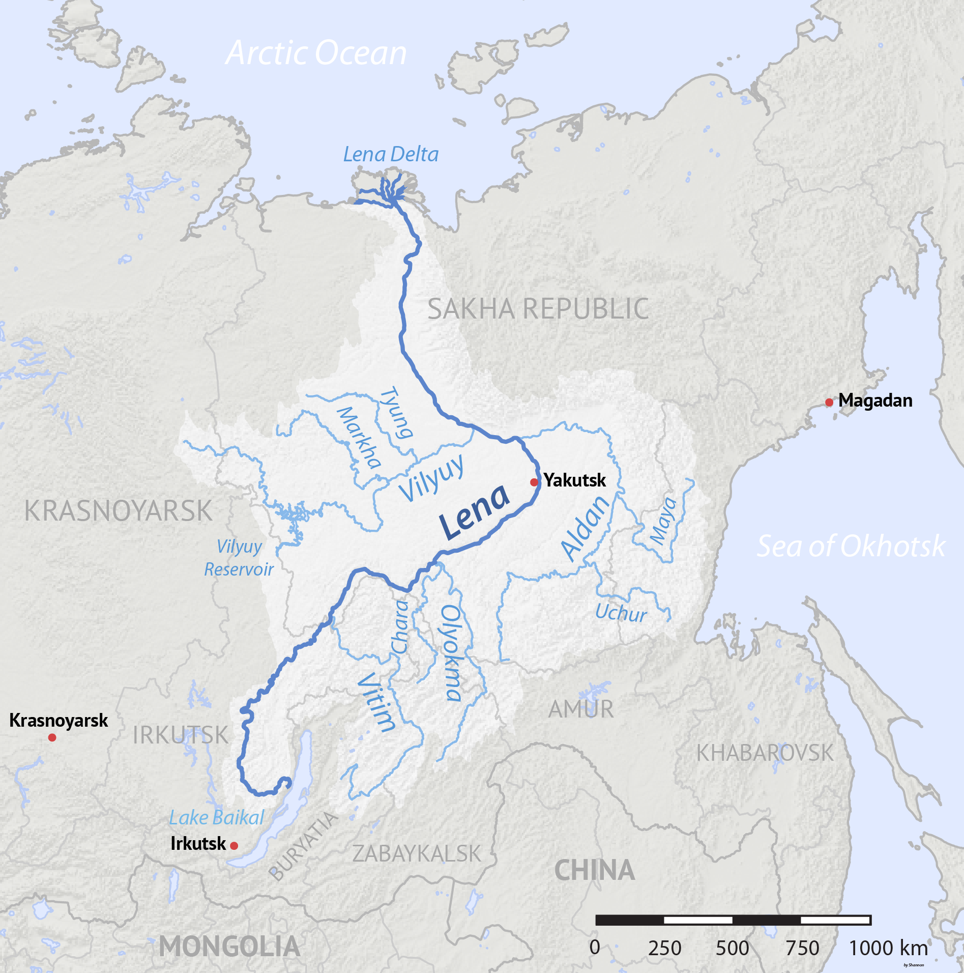 Map of Siberia's Lena River basin, with major tributaries. Created using Natural Earth and NASA SRTM data, both public domain.